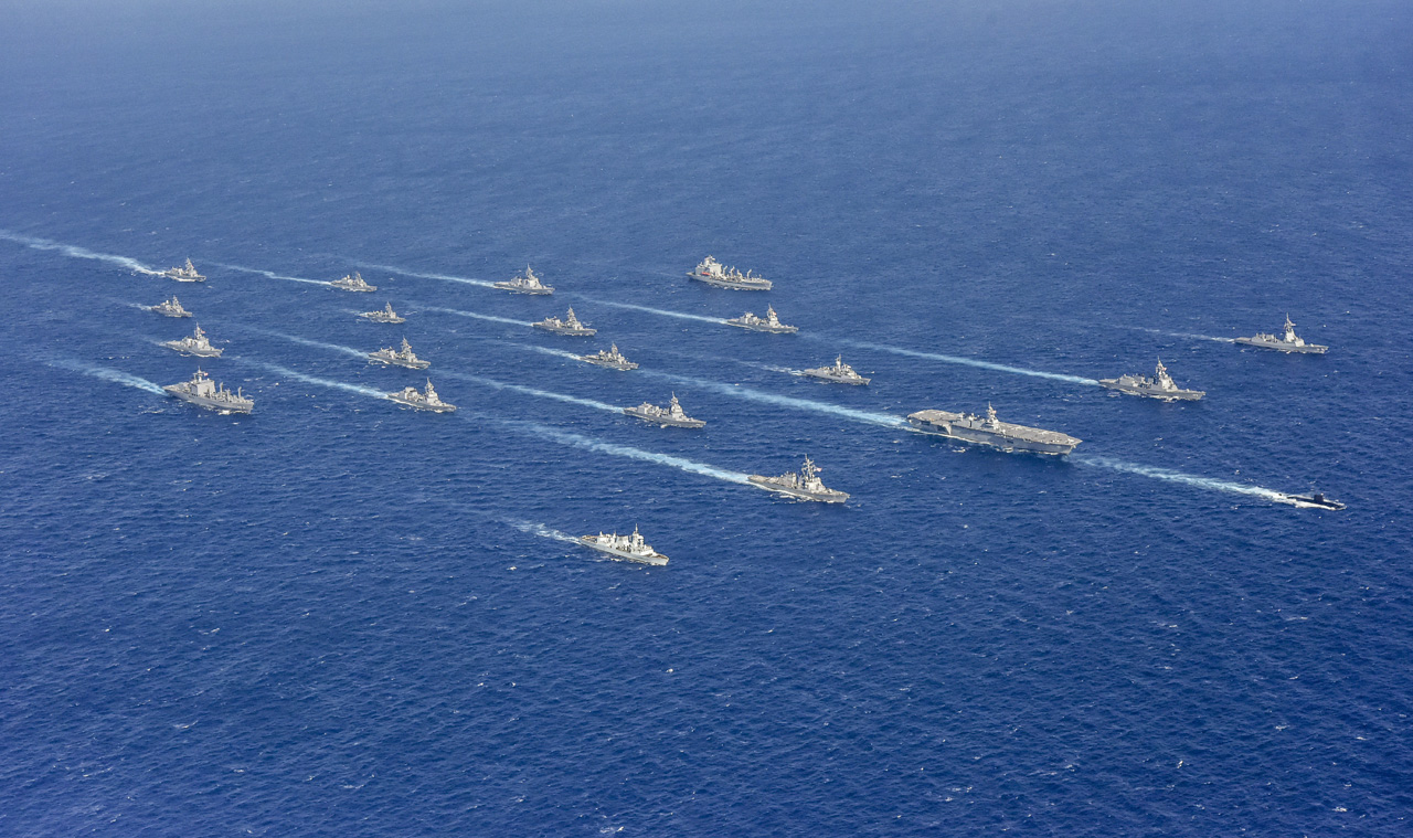 JMSDF 01G PHOTOEX